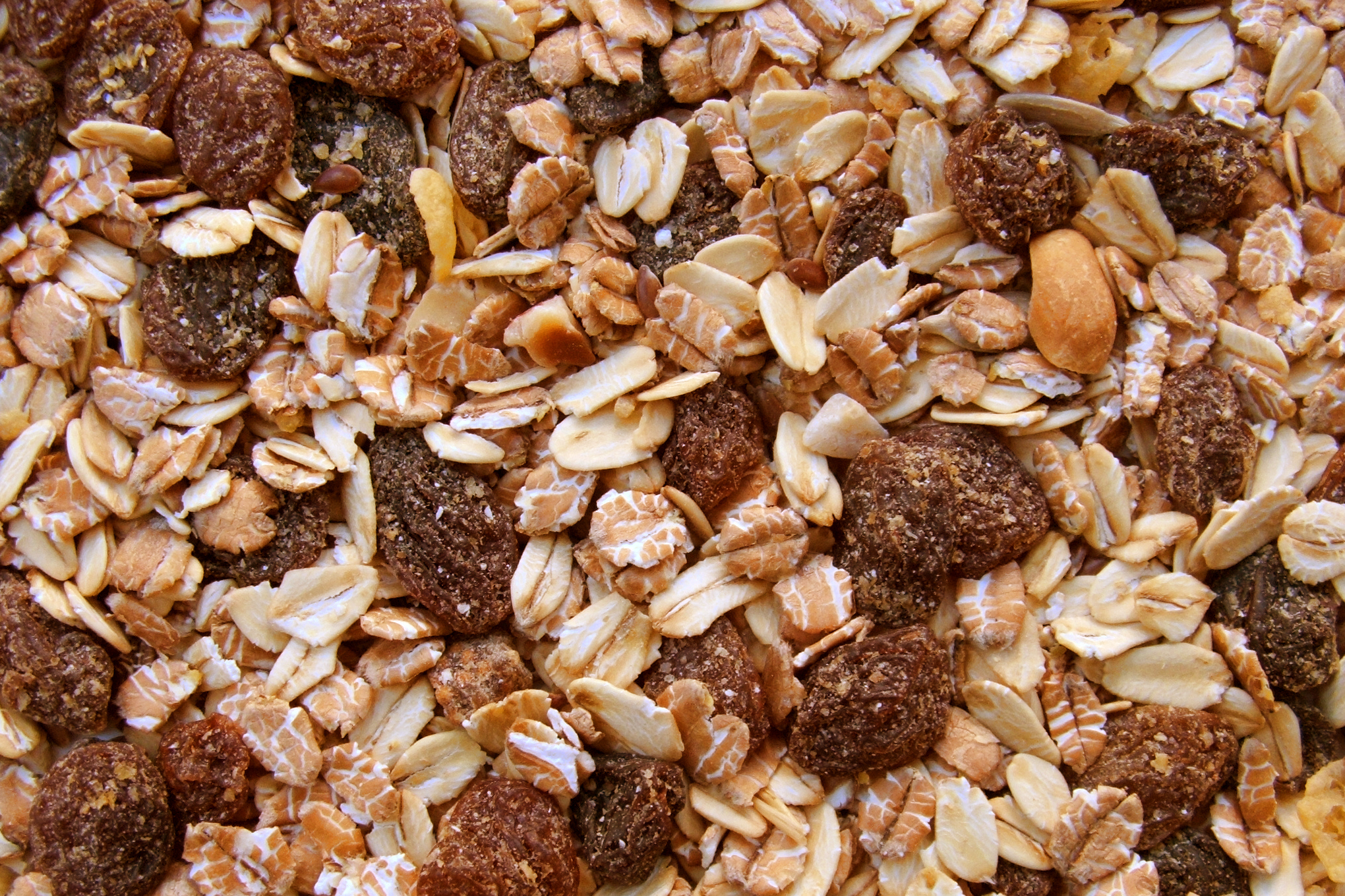 Muesli